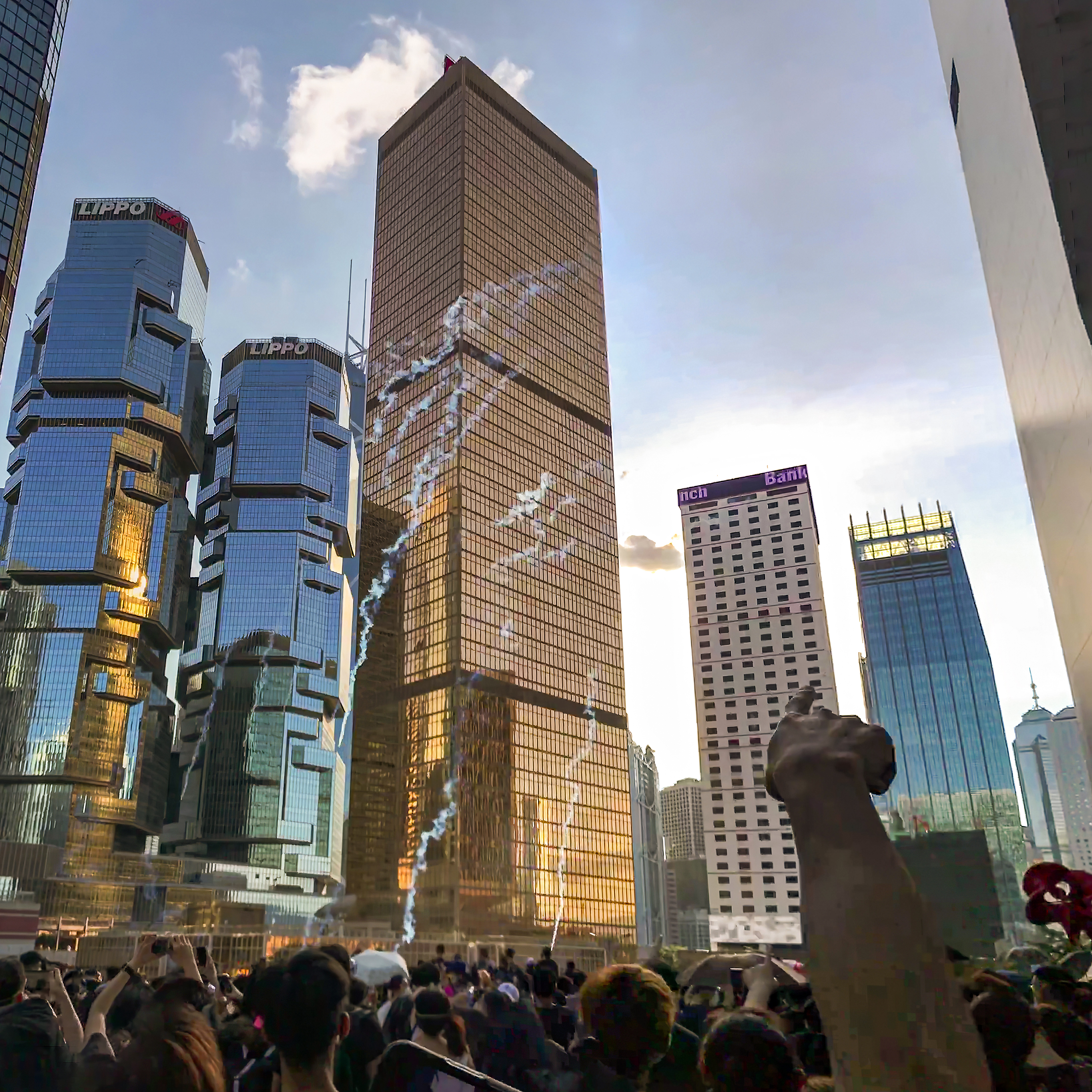 // Early this month, thousands of protesters gathered outside the government headquarters as part of a general strike across Hong Kong. The demonstration was considered an unlawful assembly because it expanded beyond what was authorized by the city. // New York Times